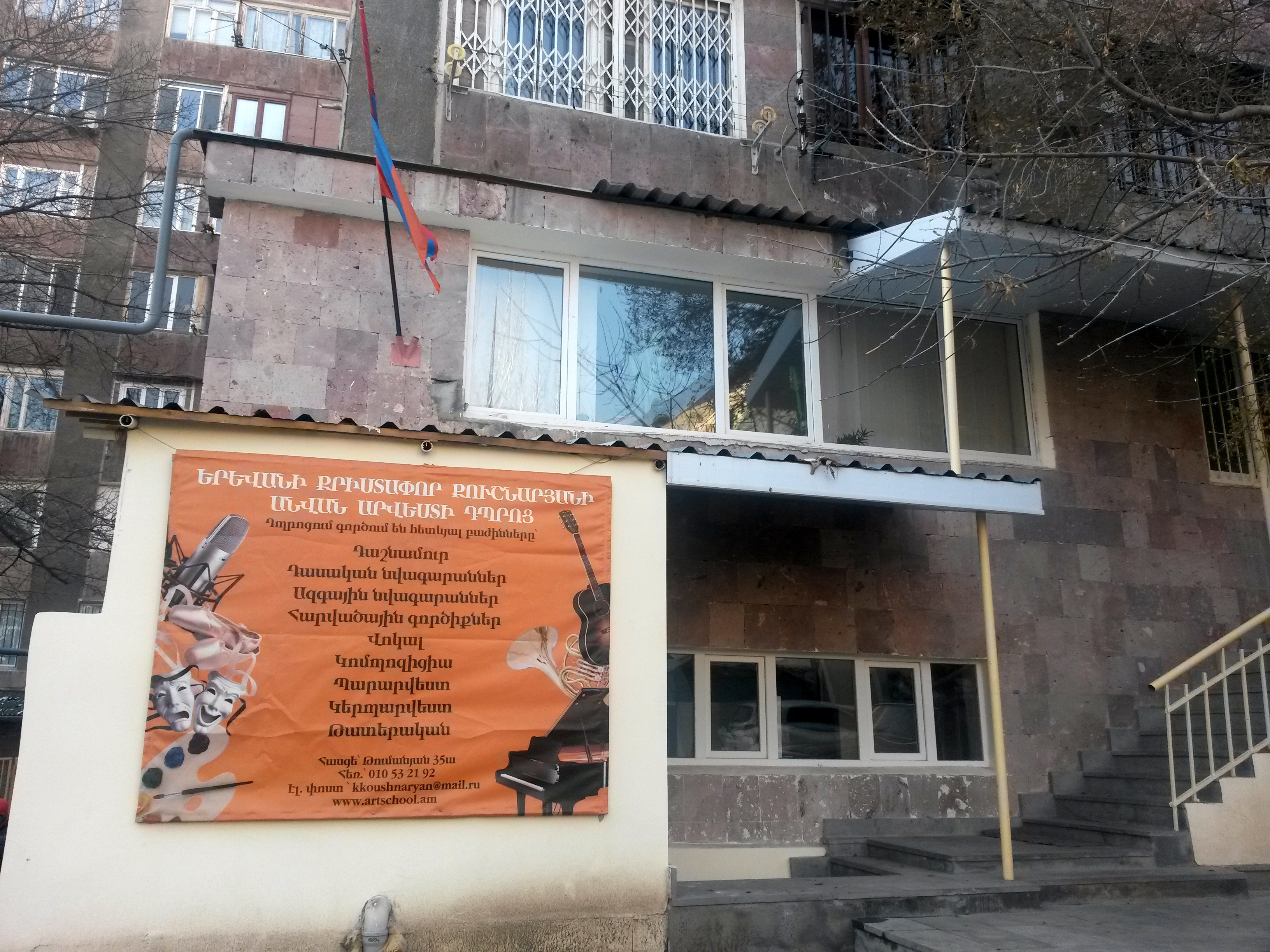 K. Kushnaryan art School